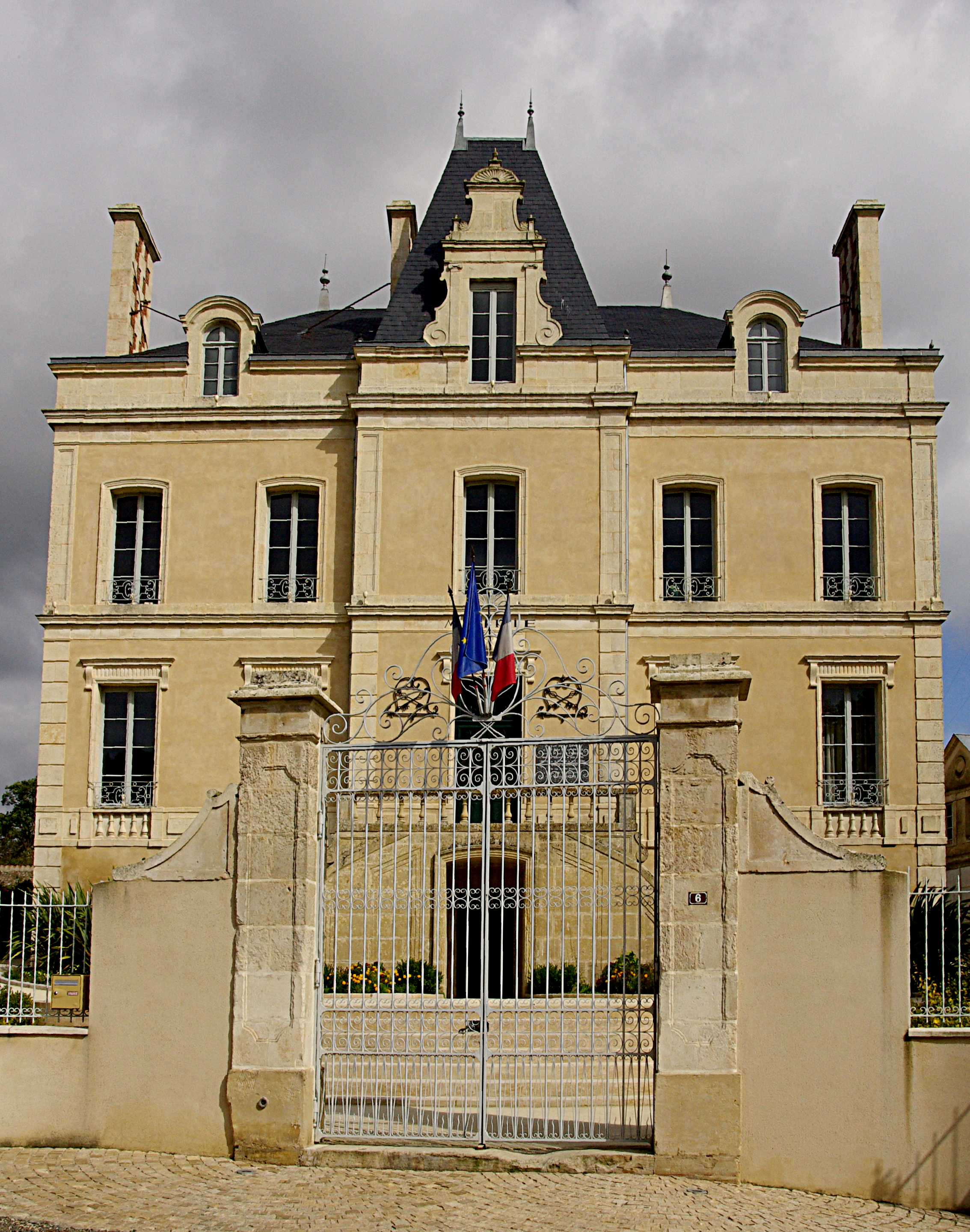 The town hall of Maillezais in Vendée.